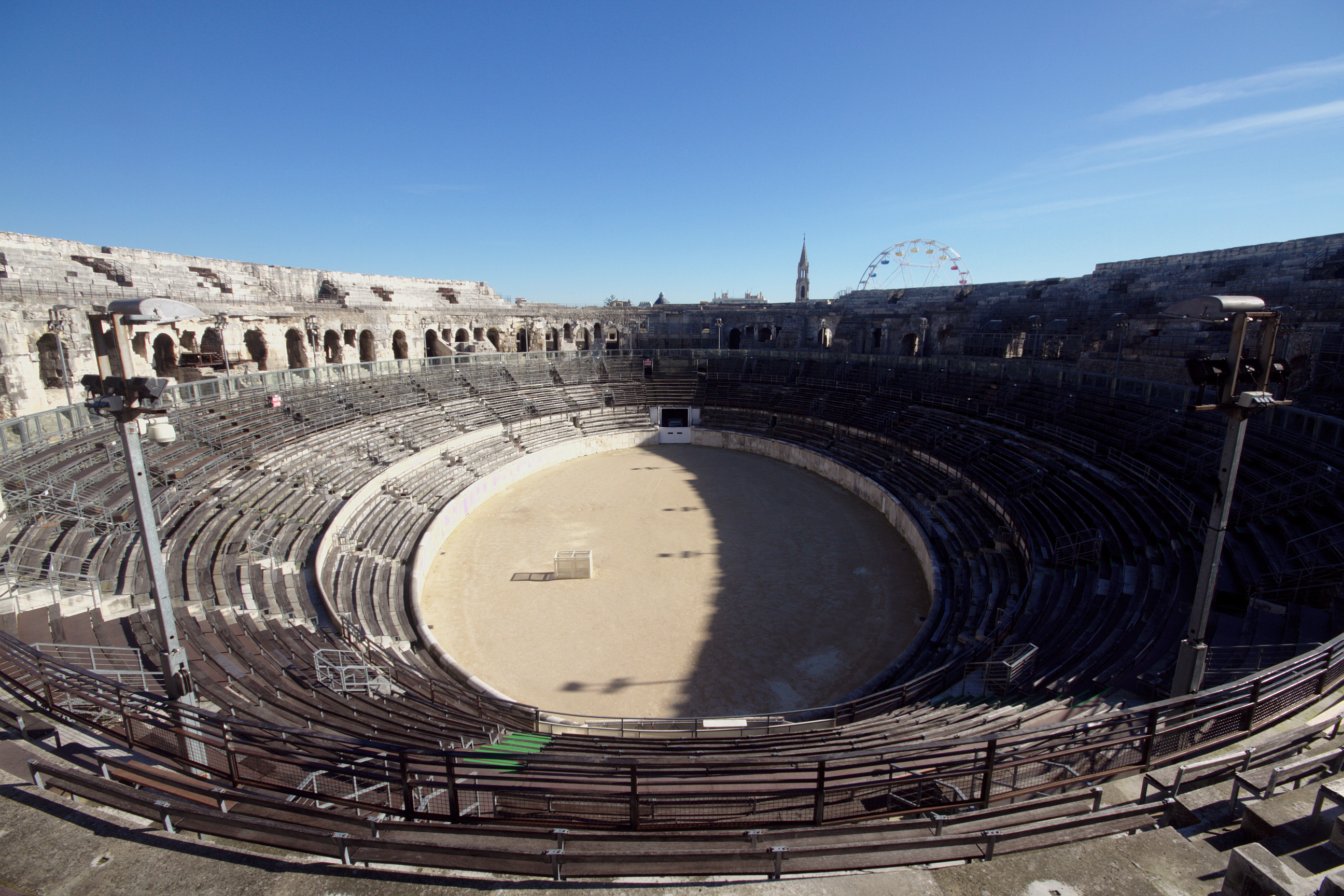 Arènes de Nîmes